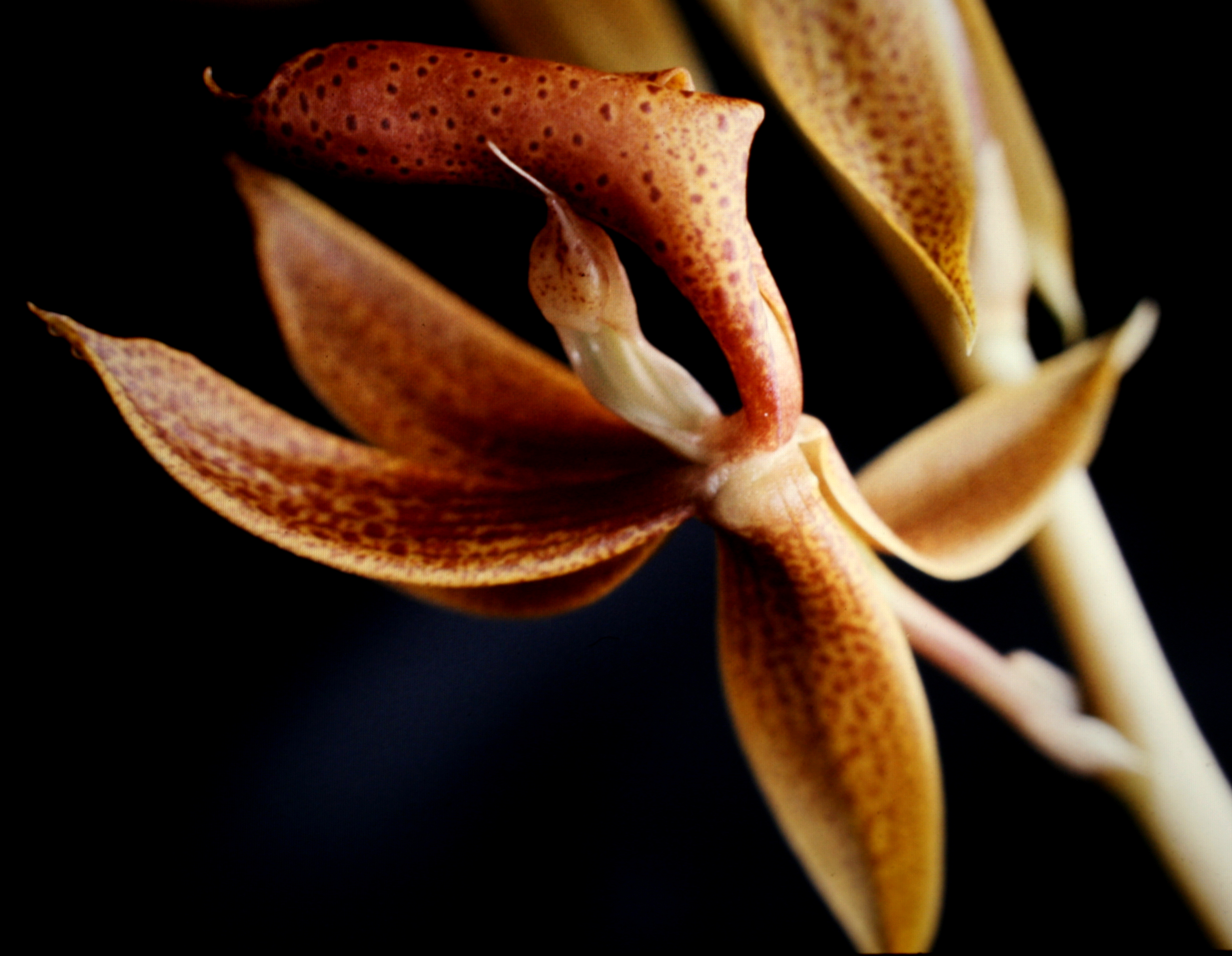 Mormodes buccinator, Suriname. Flower after pollination